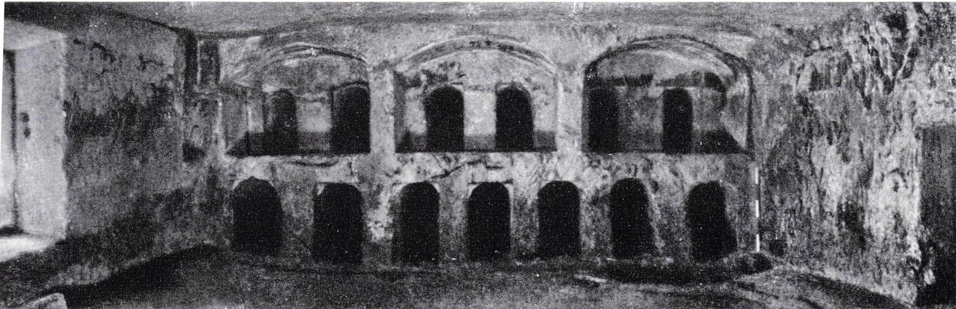 Inside of "Sanhedrin Tombs"